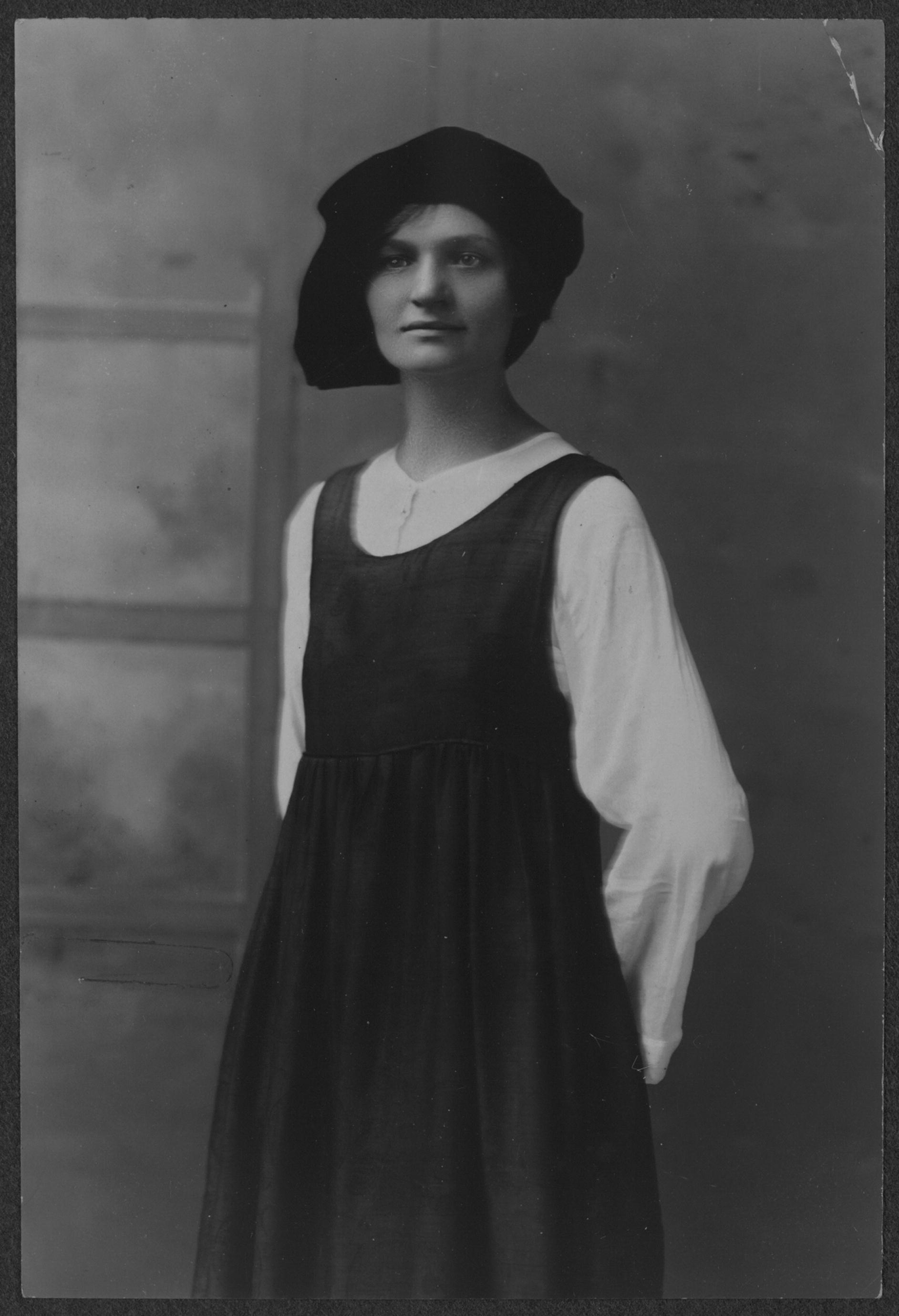 Summary: Half-length portrait of Rose Winslow (born Ruza Wenclawska, Poland], wearing dark jumper and white blouse, with dark tam. She worked in textile mills from the age of eleven to nineteen, until tuberculosis forced her to cease work altogether for two years. She has done factory inspection and trade union organization for women in the Consumers' League and Women's Trade Union League. Spent last three years, when able to work, campaigning for women suffrage. Took part in anti-Democratic campaign of California with Lucy Burns. Spokeswoman in working women's deputation to President Wilson, February, 1914. Rose Winslow of New York City was born in Poland and worked in industry in Pennsylvania before joining the western suffrage campaign of the NWP in 1916. She was arrested Oct. 15, 1917, and sentenced to 7 months in District Jail. She helped to lead the hunger strikes of the NWP while imprisoned. Source: Doris Stevens, Jailed for Freedom (New York: Boni and Liveright, 1920), 370.